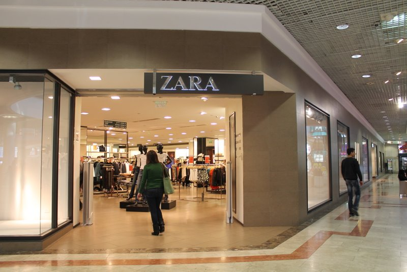 zara shop malha